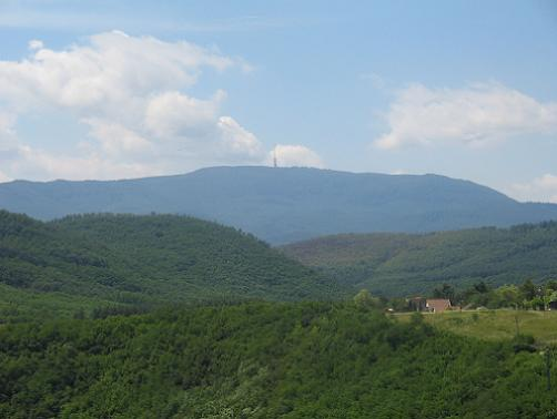 A scene in Mátra, Hungary. License: as provided below.